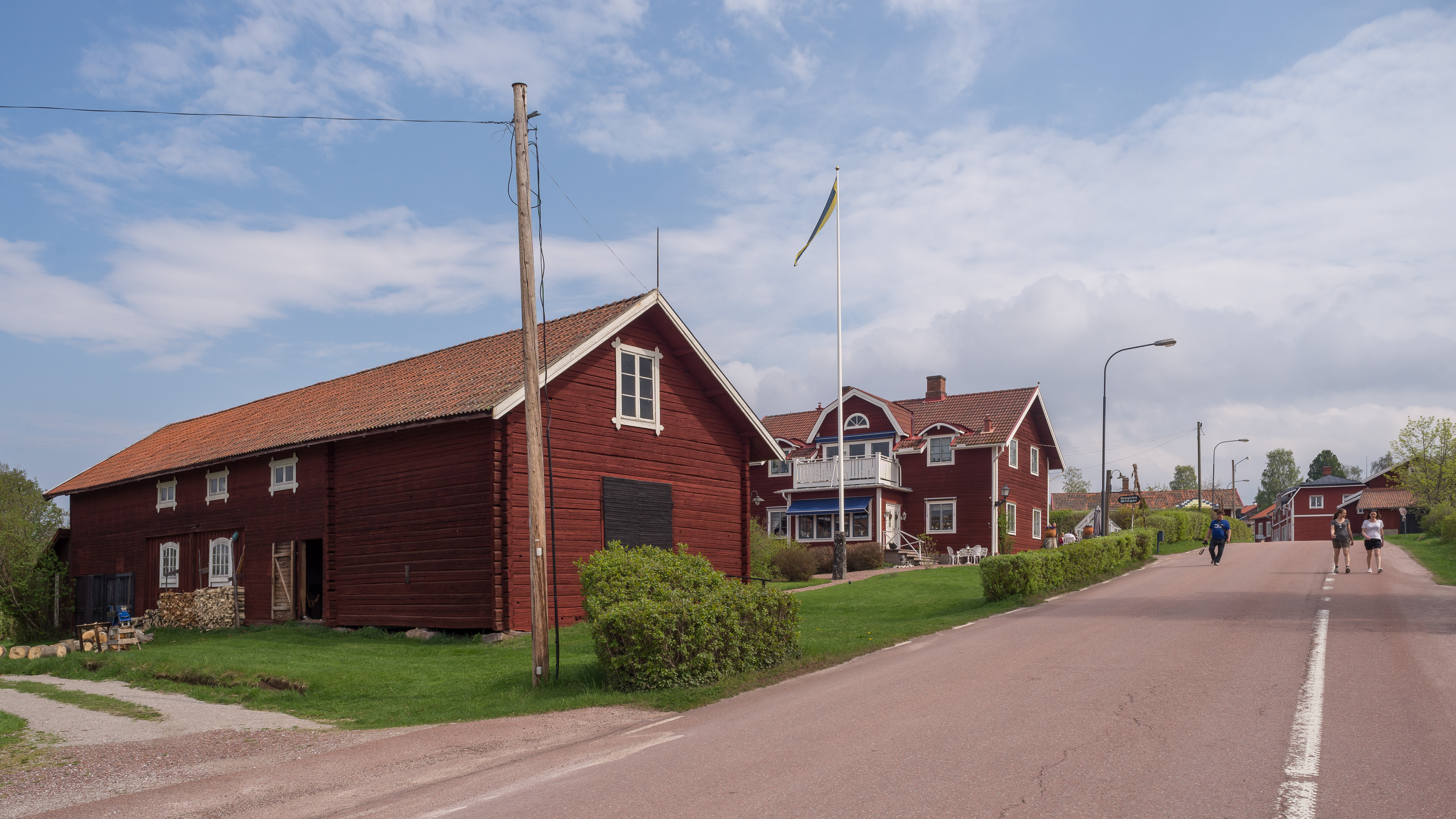 The village of Tällberg in Leksand Municipality.